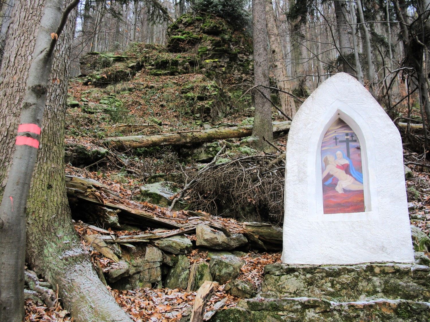 Nature reserve Libín